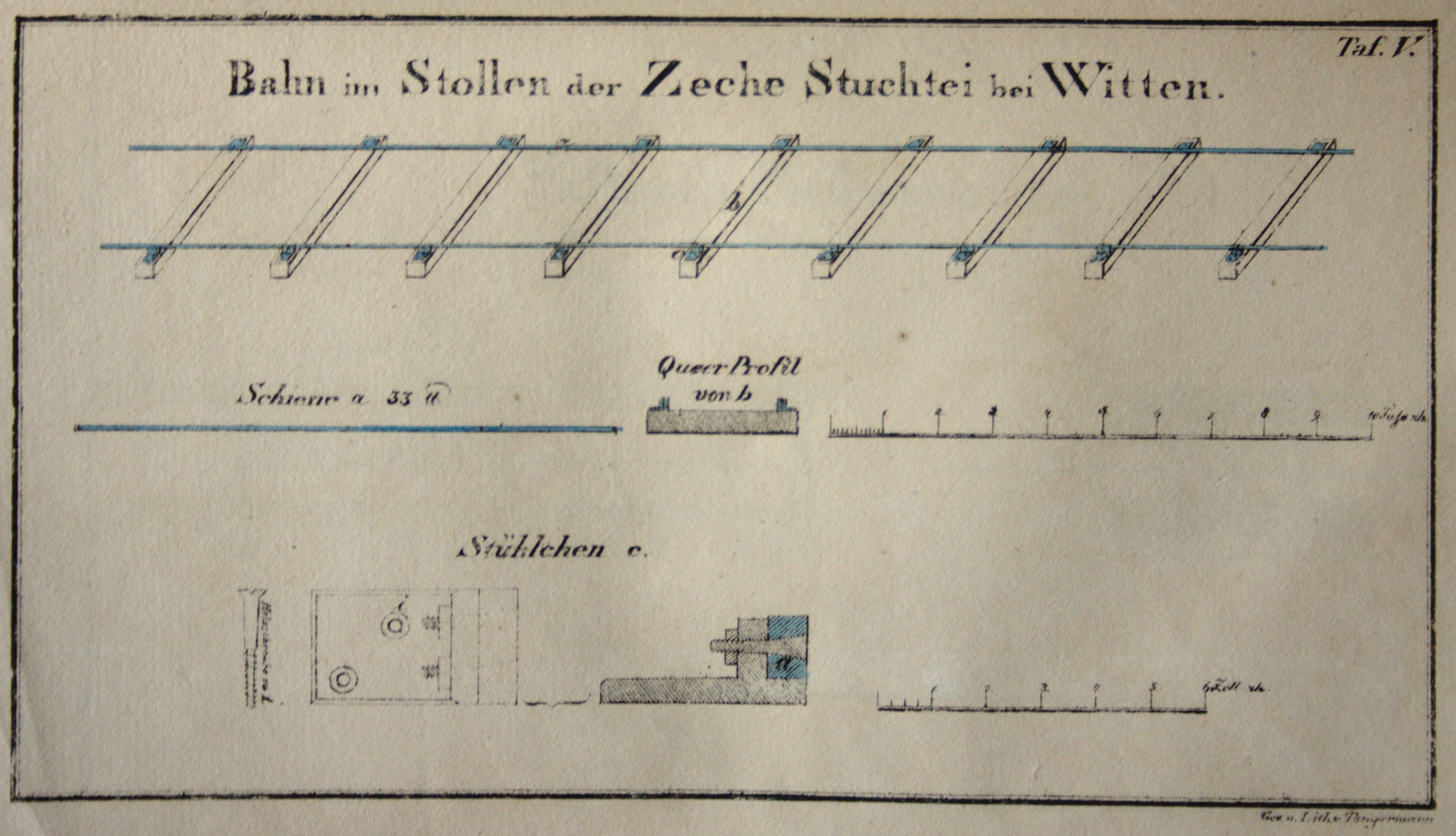 Tracks of the mine railway inside of a drive in of Stuchtei Mine near Witten Measurements in feet.